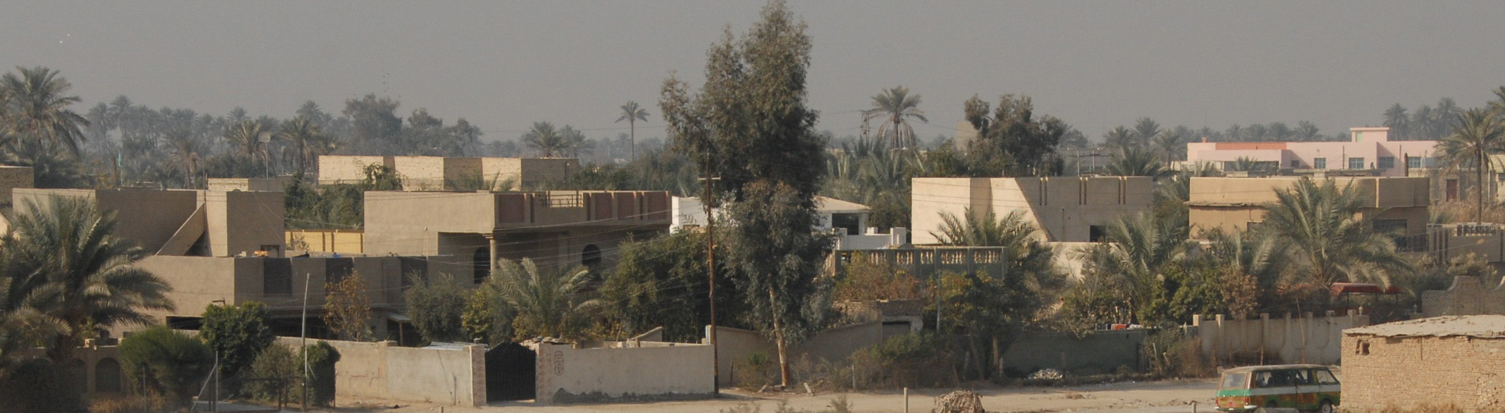 U.S. Army Soldiers, assigned to Charlie company 3-7 infantry battalion, 3rd Infantry Division,, provide security from their humvees at the Musayyib city council building on Dec. 31, 2007.